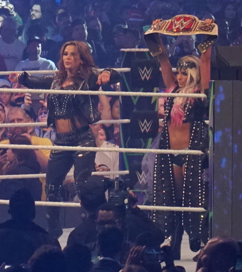 Alexa Bliss as the WWE Raw Women's Champion at WrestleMania 34, accompanied by Mickie James.